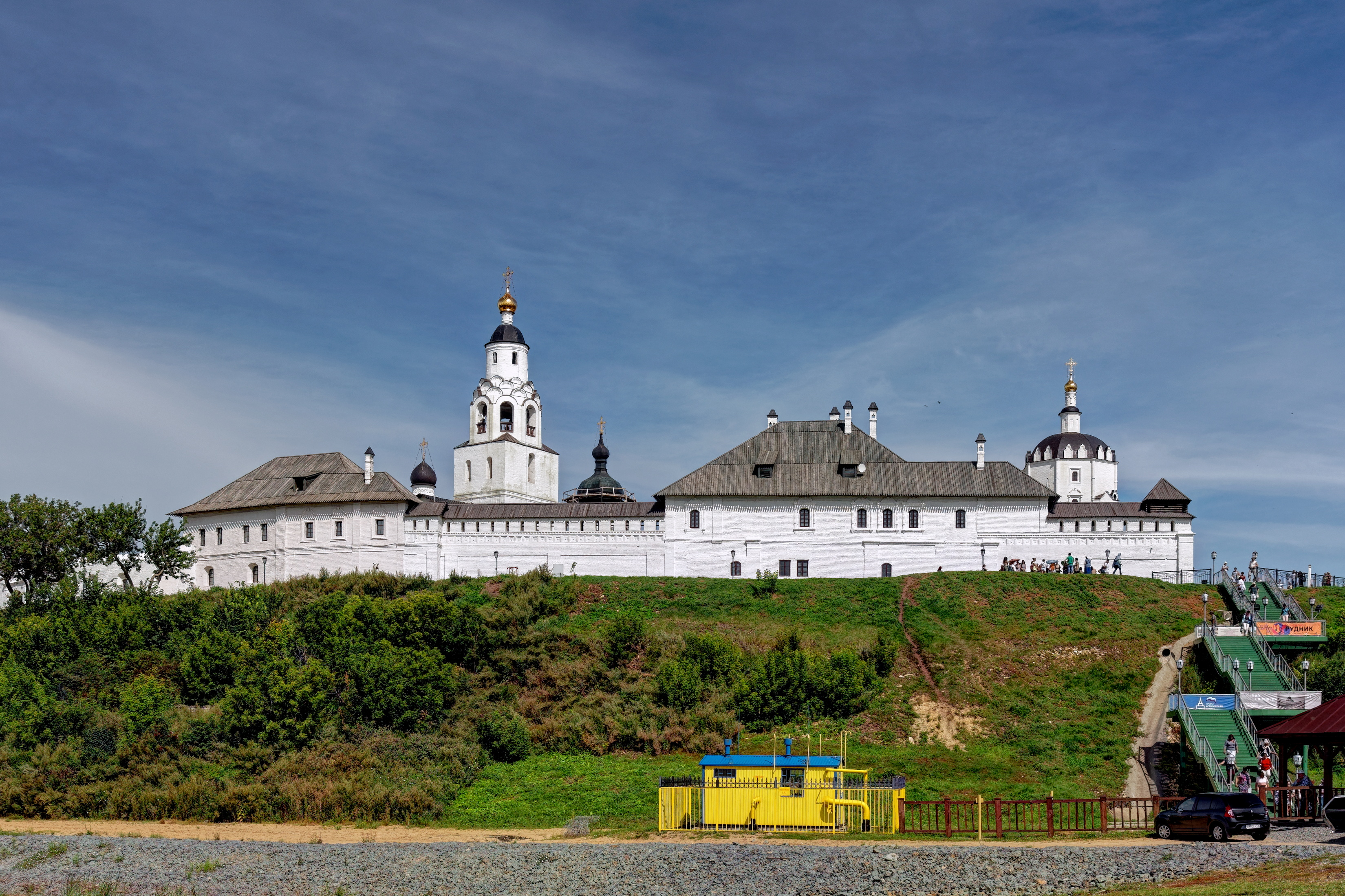 Sviyazhsk. Uspensko-Bogorodichny Monastery